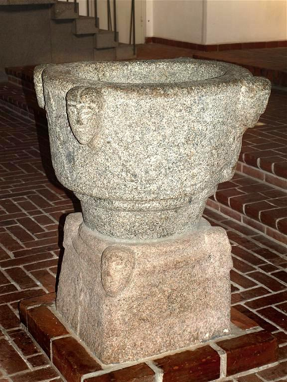 Westerland (Sylt), Slesvic-Holstein (Germany): church St. Nicolai, font, photo 2008